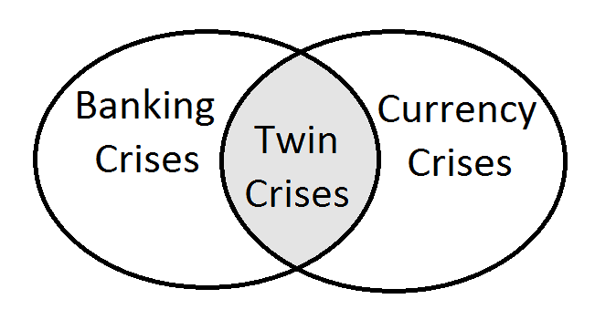 Venn diagram relating twin crises to banking and currency crises.